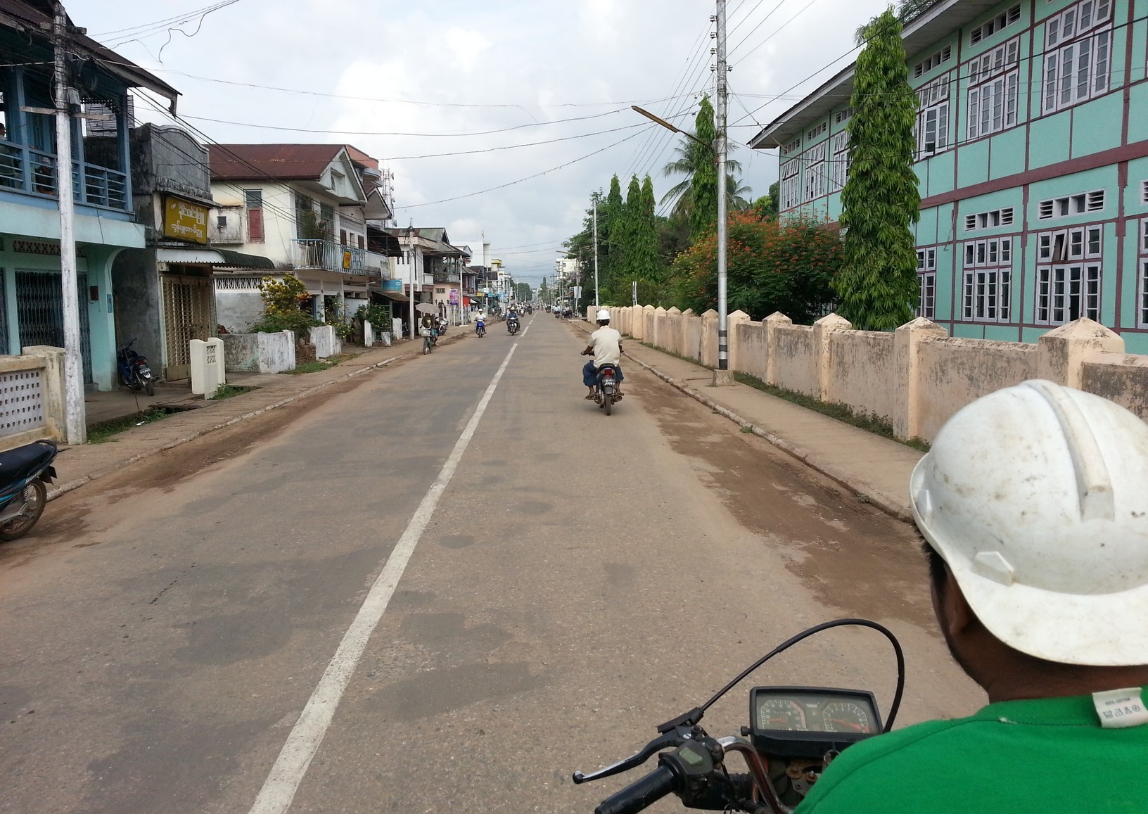 Dawei, Tennasserim Division